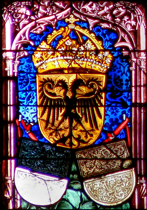 Old coat of arms in the Ulmer Münster - Ulm/Germany